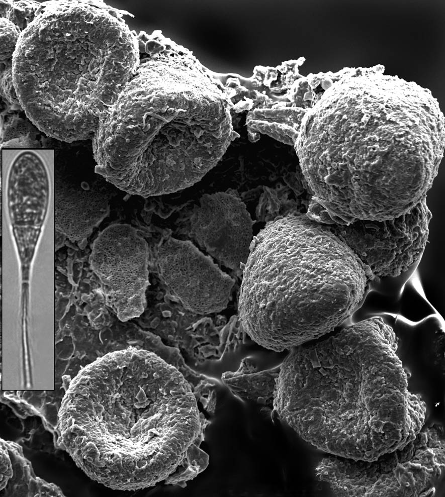 Loranitschkia viticola